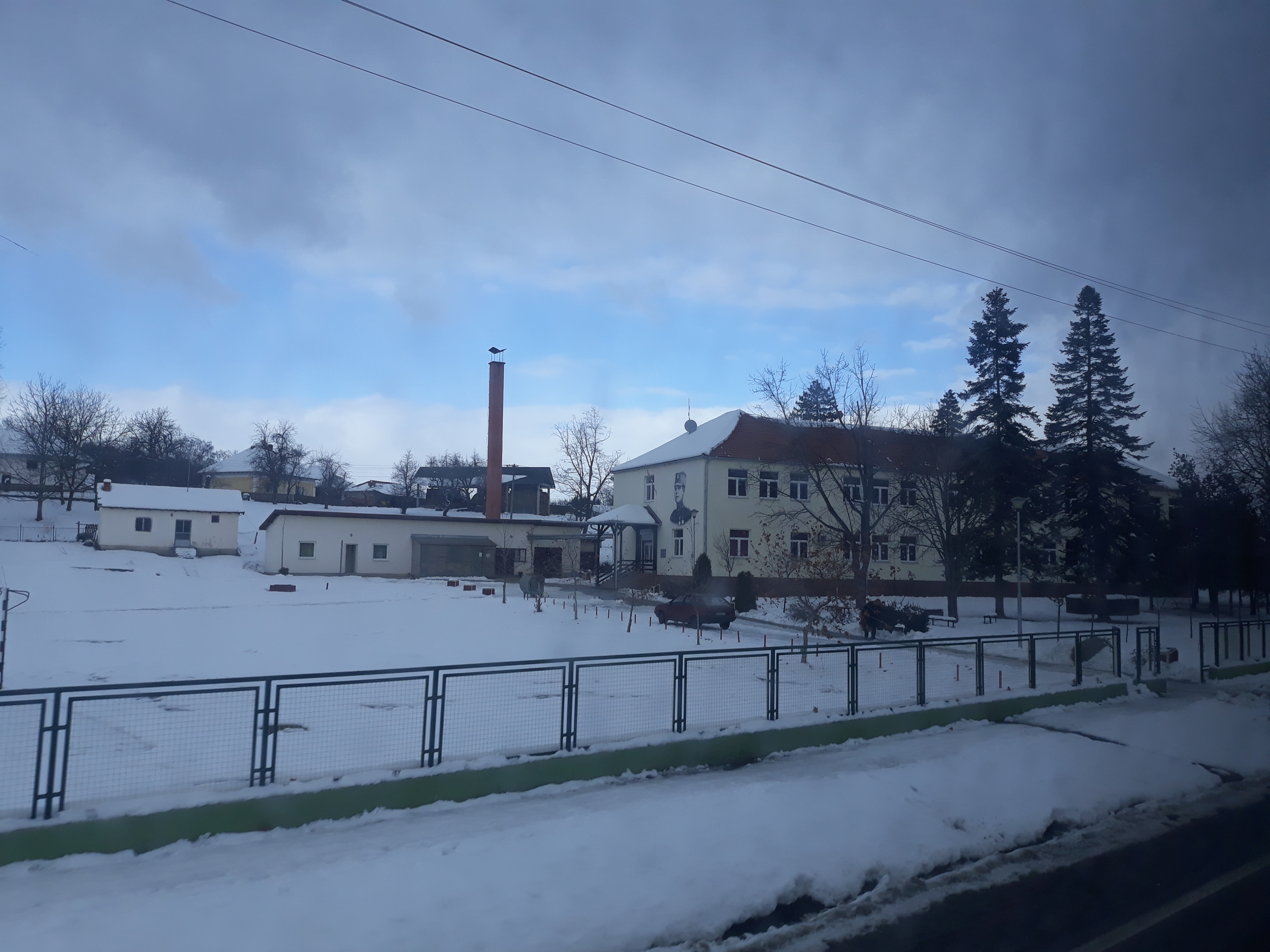 Elementary school in Vitanovac, Kraljevo